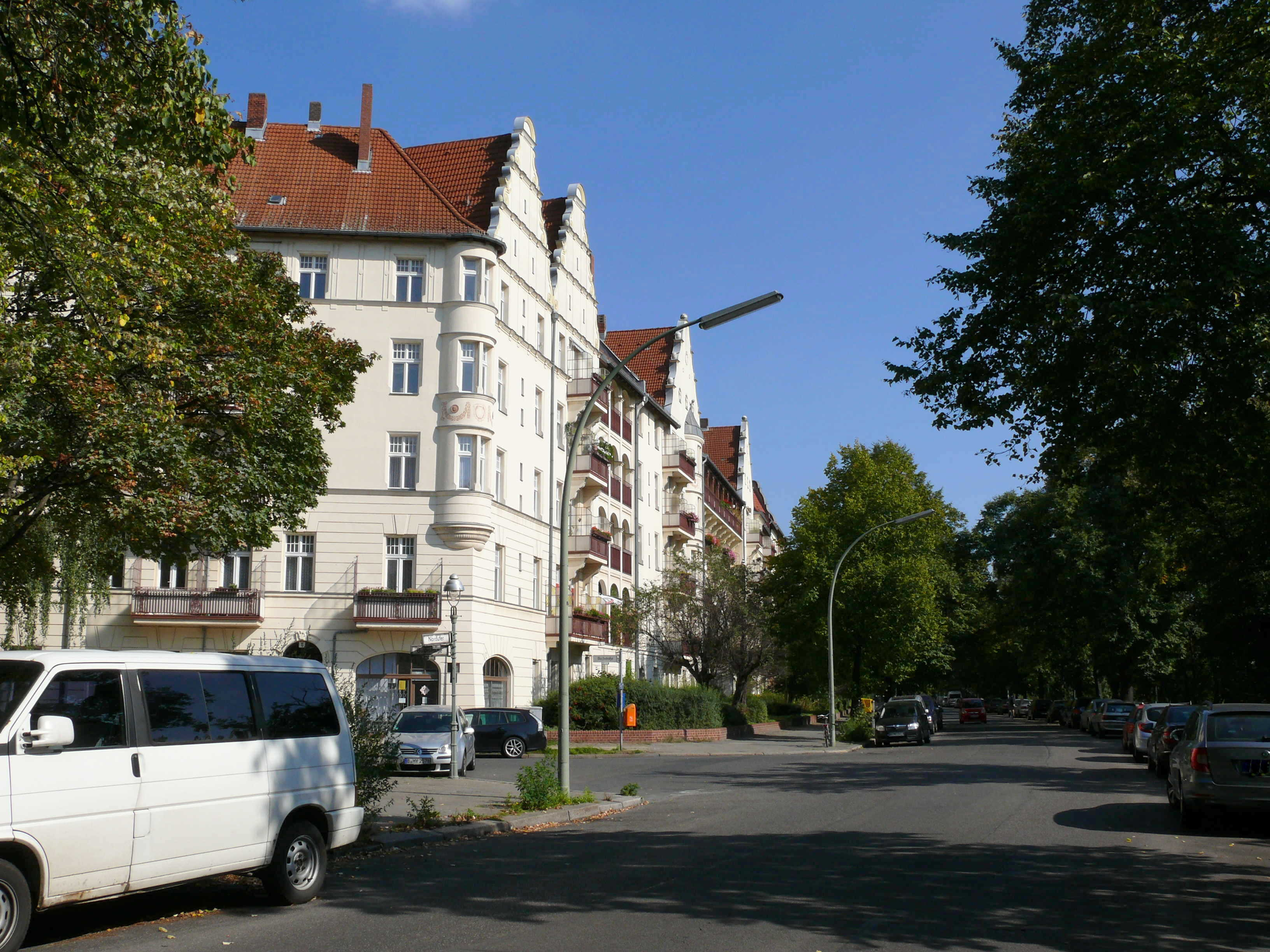 Berlin-Wedding Nordufer